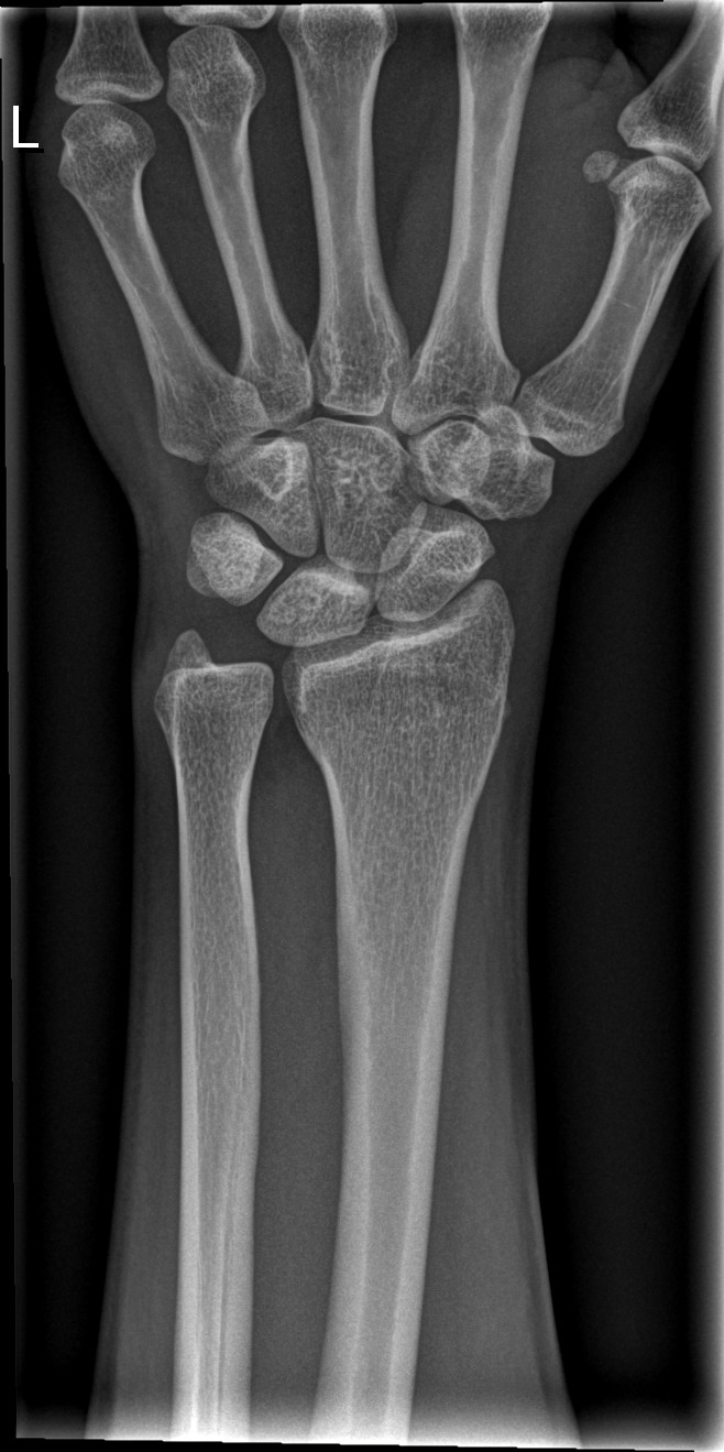 X-ray of a normal human wrist left